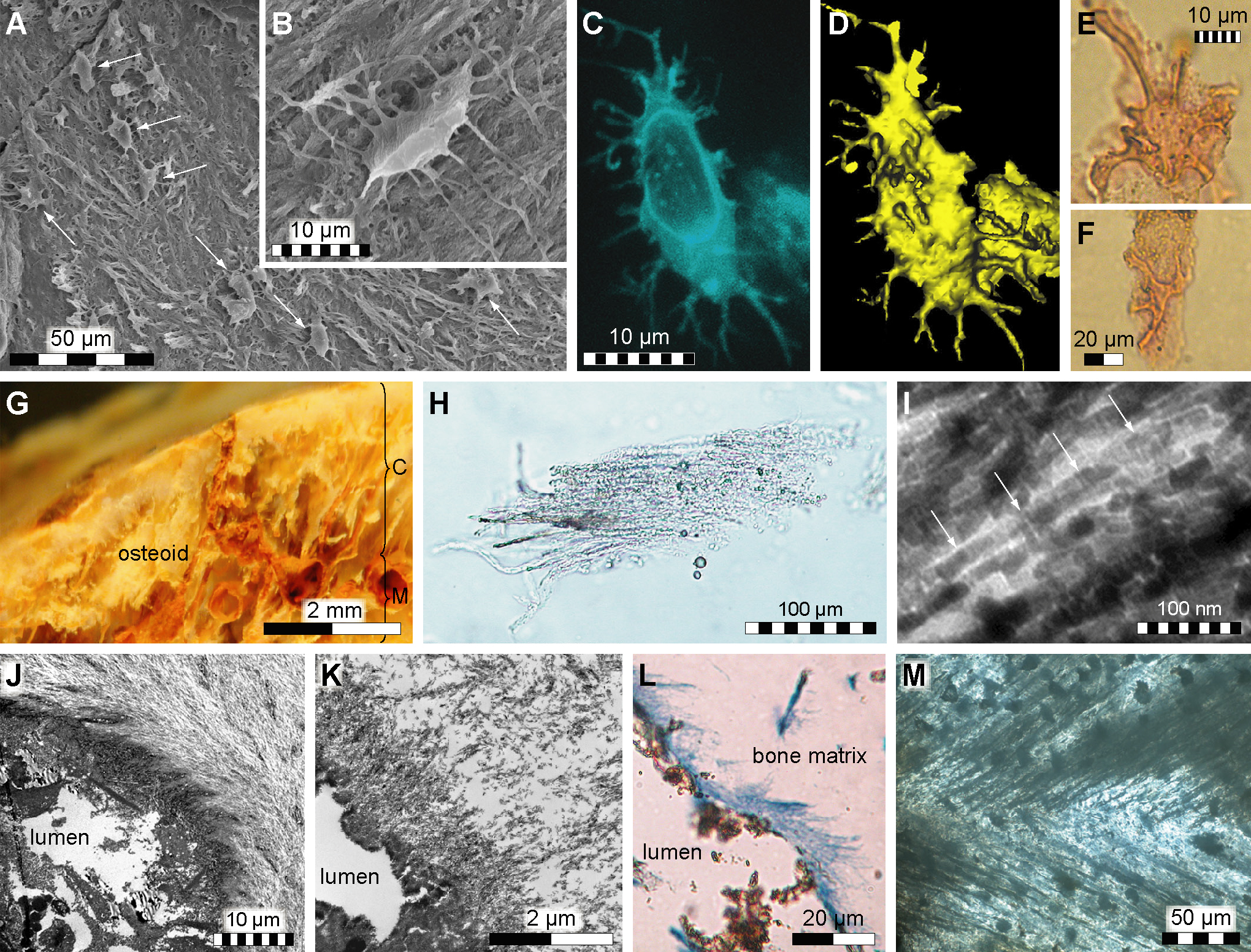 Fibrous tissues and microstructures recovered from IRSNB 1624. (A) Secondary electron micrograph of acid etched cortical bone showing fibrous tissues and what appears to be part of the osteocyte-lacunocanalicular system (osteocyte-like entities at arrows). (B) Osteocyte-like structure in lacuna within fibrous tissues. (C) Isolated osteocyte-like form visualized with fluorescent dye. (D) Topographic image of the same specimen as in C to illustrate the three-dimensional arrangement of the presumed cytoplasmic protrusions. (E, F) Light micrographs of fossil microstructures that are consistent in size and morphology to osteocytes or pericytes enfolding the outer surface of two vessel fragments. (G) Light micrograph of demineralized mosasaur bone tissues showing possible remains of the osteoid associated with vessel-like structures (C = cortex, M = medulla). (H) Light micrograph of an isolated fiber bundle. (I) TEM-image of demineralized mosasaur bone showing parallel-oriented fibrils. The spacing of the arrows indicates a 67 nm axial repeat D-banding pattern, which in modern bone is characteristic of collagen. (J) Transverse section (TEM-image) of a blood vessel from cortical bone of an extant monitor lizard humerus (LO 10298). Note the hair-like bone matrix fibers that are coiled around the canal wall. (K) Corresponding structures in the mosasaur humerus. (L) Histochemical staining of demineralized mosasaur bone suggesting the presence of connective tissue (blue) in the hair-like fibers that line a partially ruptured canal wall (the fracturing presumably occurred during the preparation of the sample). (M) Light micrograph (thin section) of untreated mosasaur bone showing fibers embedded in hydroxyapatite.